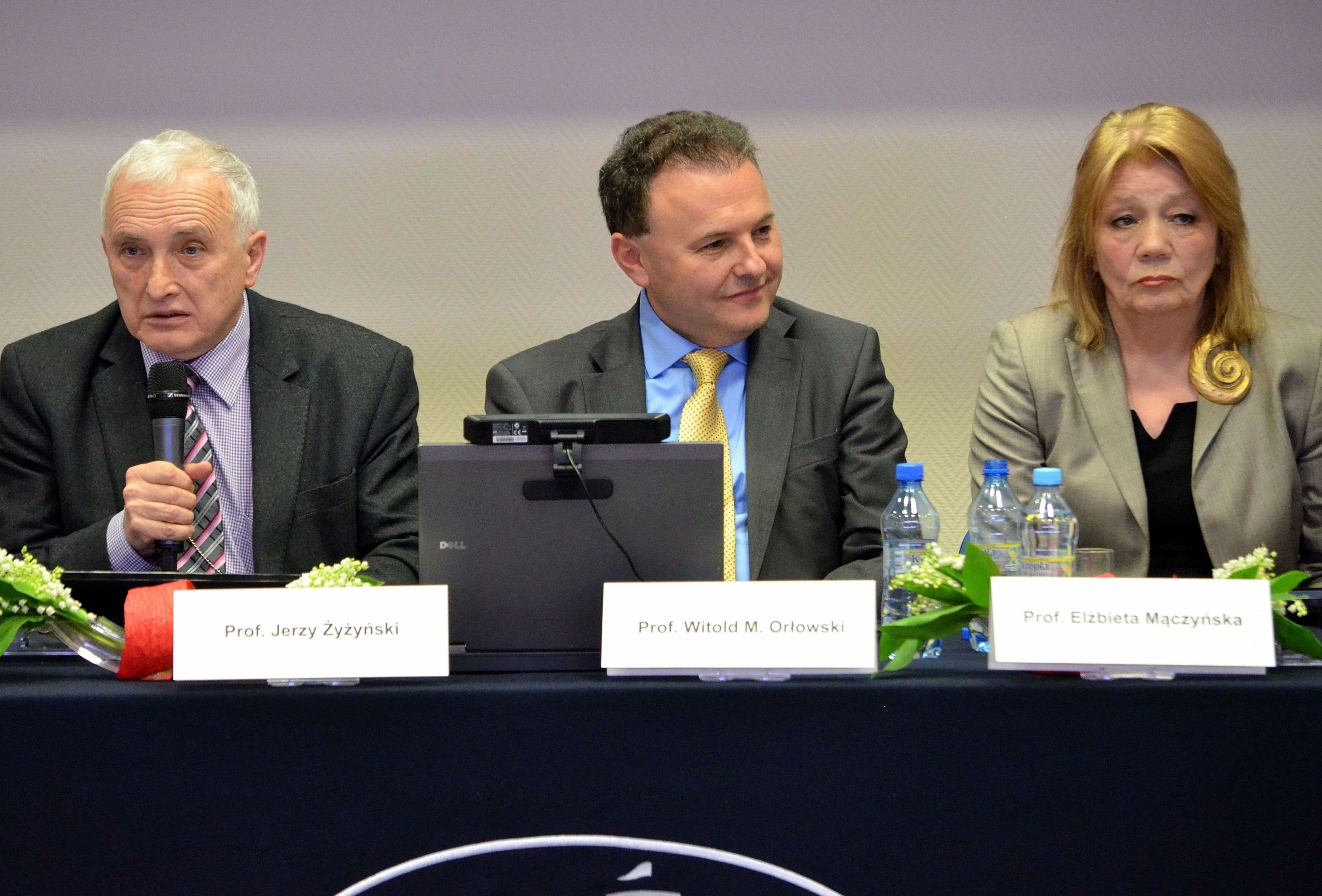 Jerzy Żyżyński, Witold Orłowski and Elżbieta Mączyńska. Conference "A quarter-centry of Polish transformation, and what next?" at Koźmiński University in Warsaw